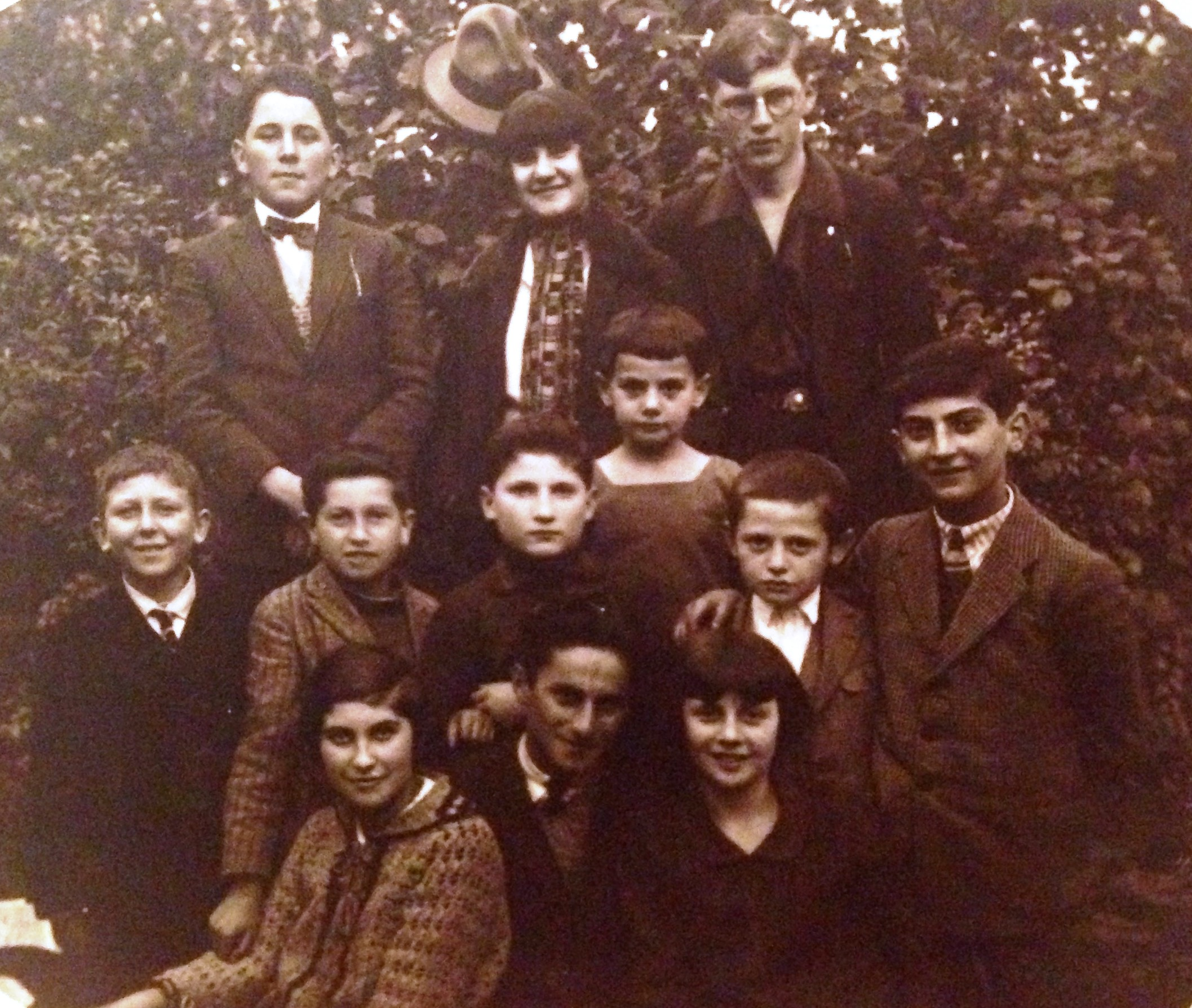 Ruma's jewish community's children before WWII - 1920